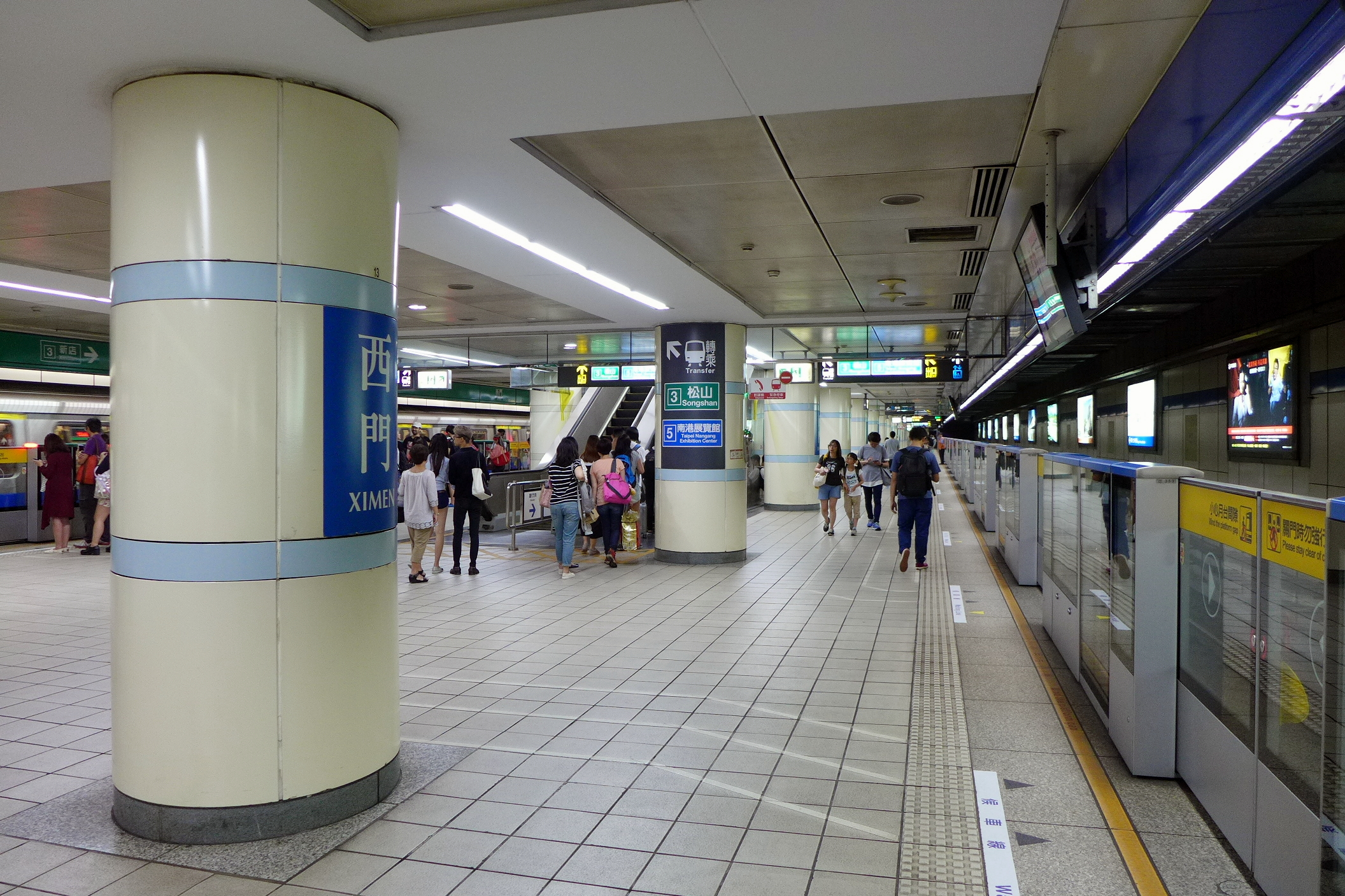 Platform 3, Ximen Station, Taipei Metro.